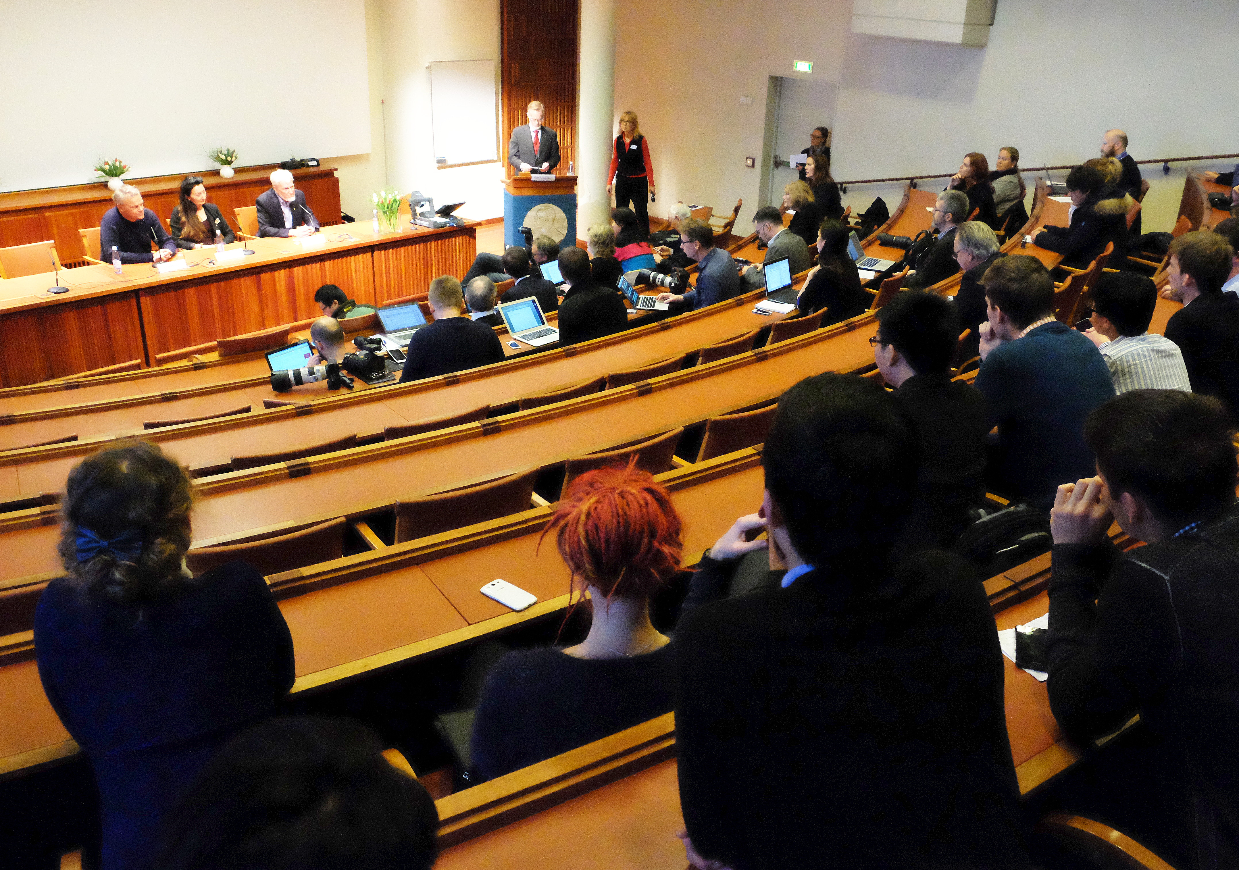 Press Conference Saturday Dec 6 for the Nobel Laureates in Physiology or Medicine 2014, at Karolinska Institutet. From left Edvard I. Moser, May-Britt Moser, John O'Keefe. To the right of the podium Göran K. Hansson, Secretary of the Nobel Committee for Physiology or Medicine. Photo: Gunnar Hansen, NTNU Comm. Div.